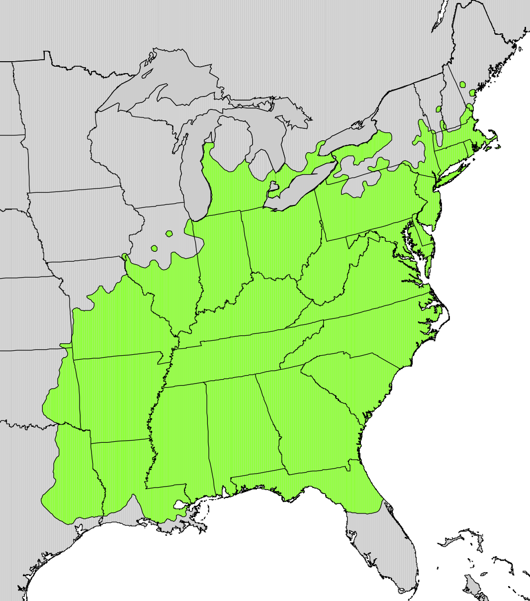 Range map of Sassafras albidum